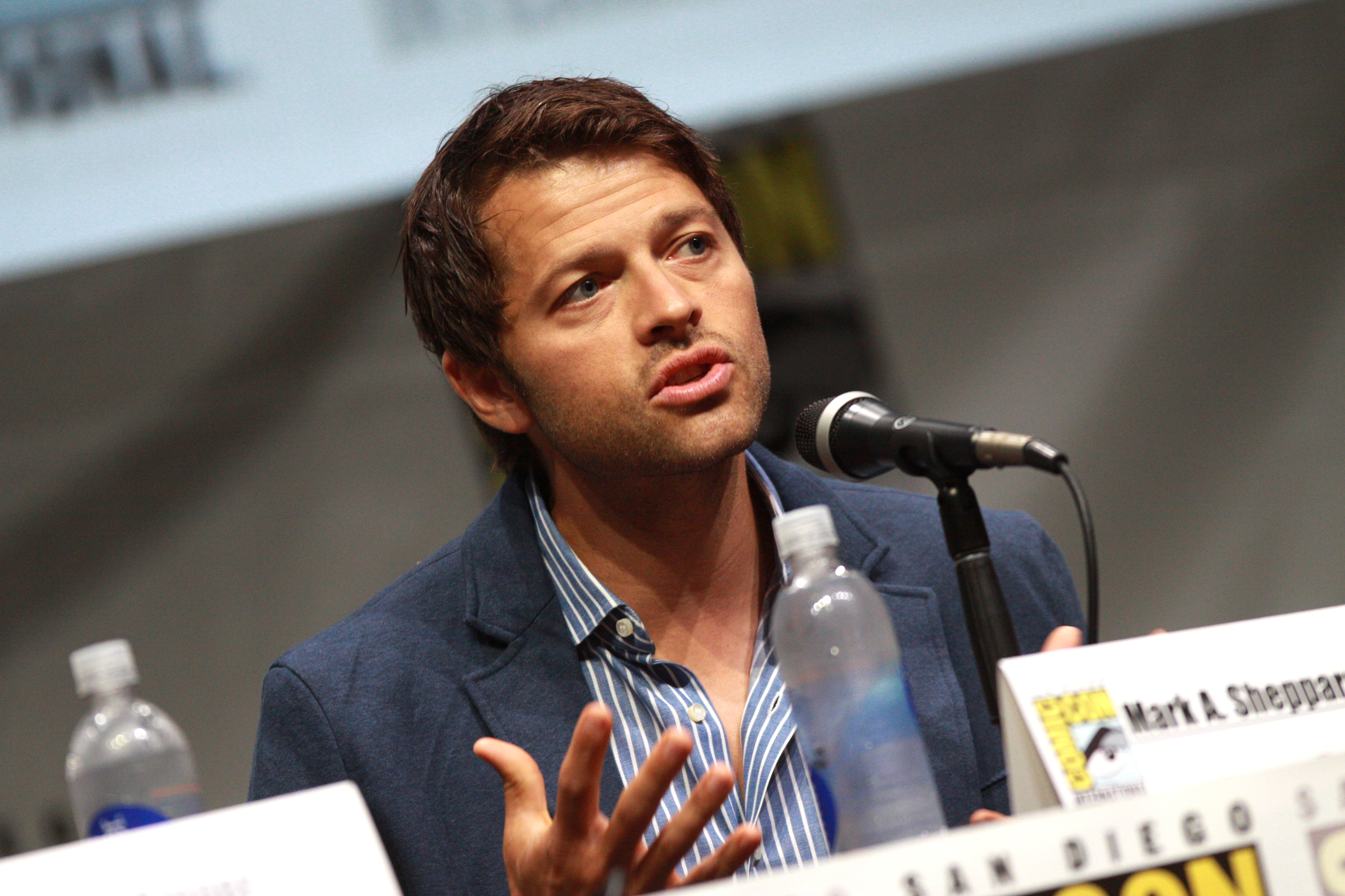 Misha Collins speaking at the 2013 San Diego Comic Con International, for "Supernatural", at the San Diego Convention Center in San Diego, California.